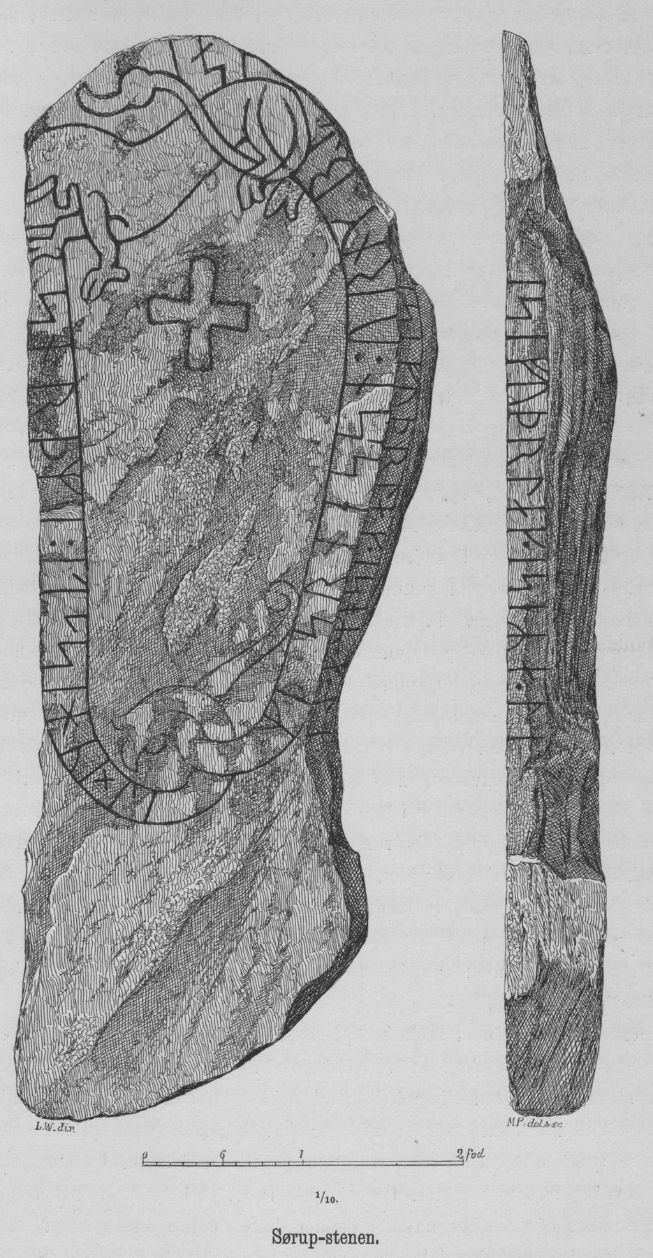 Engraving of the Sørup runestone (made by Julius Magnus Petersen).